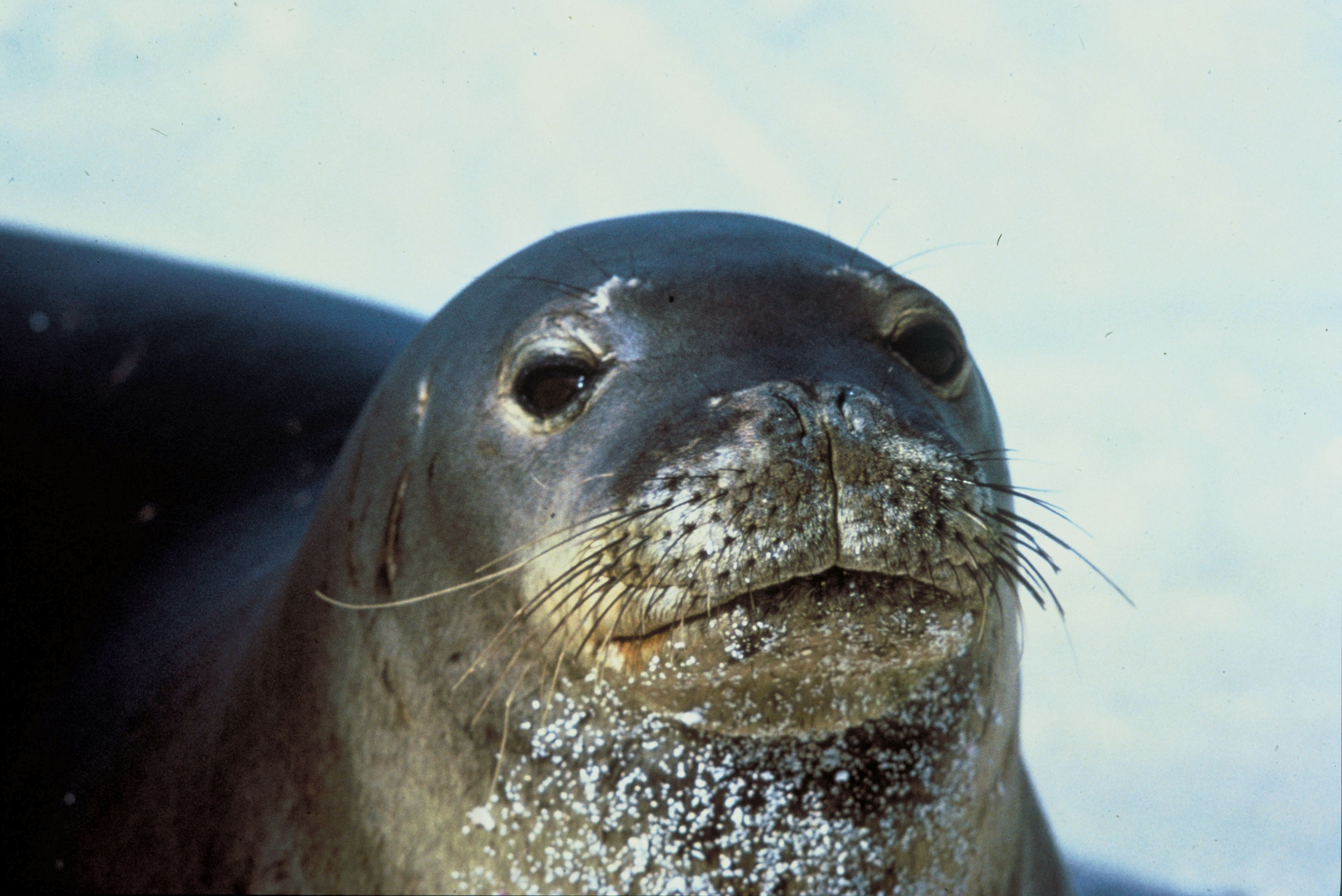 Hawaiian Monk Seal